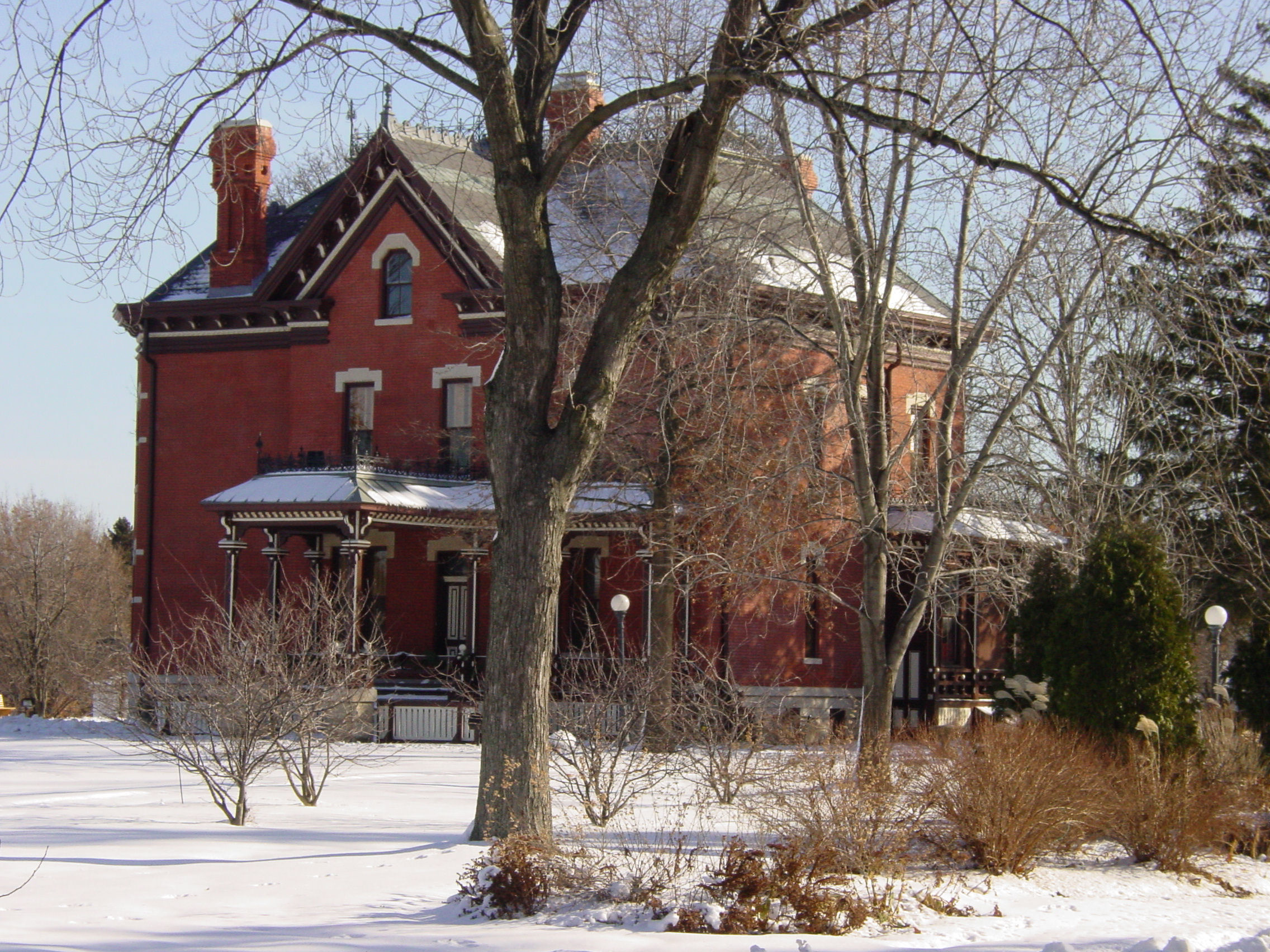 Exterior of the Martin-Mitchell Mansion within the Naper Settlement museum, view from Aurora Avenue, Naperville, Illinois, USA.